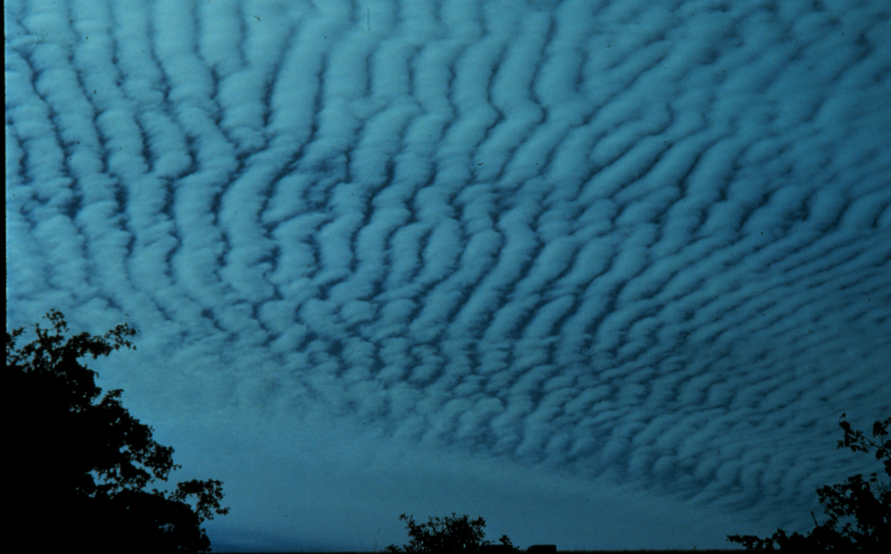 Altocumulus clouds Image ID: wea00039, Historic NWS Collection